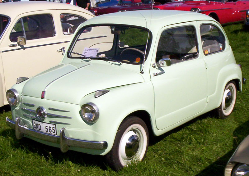 Fiat 600 Standard 1959